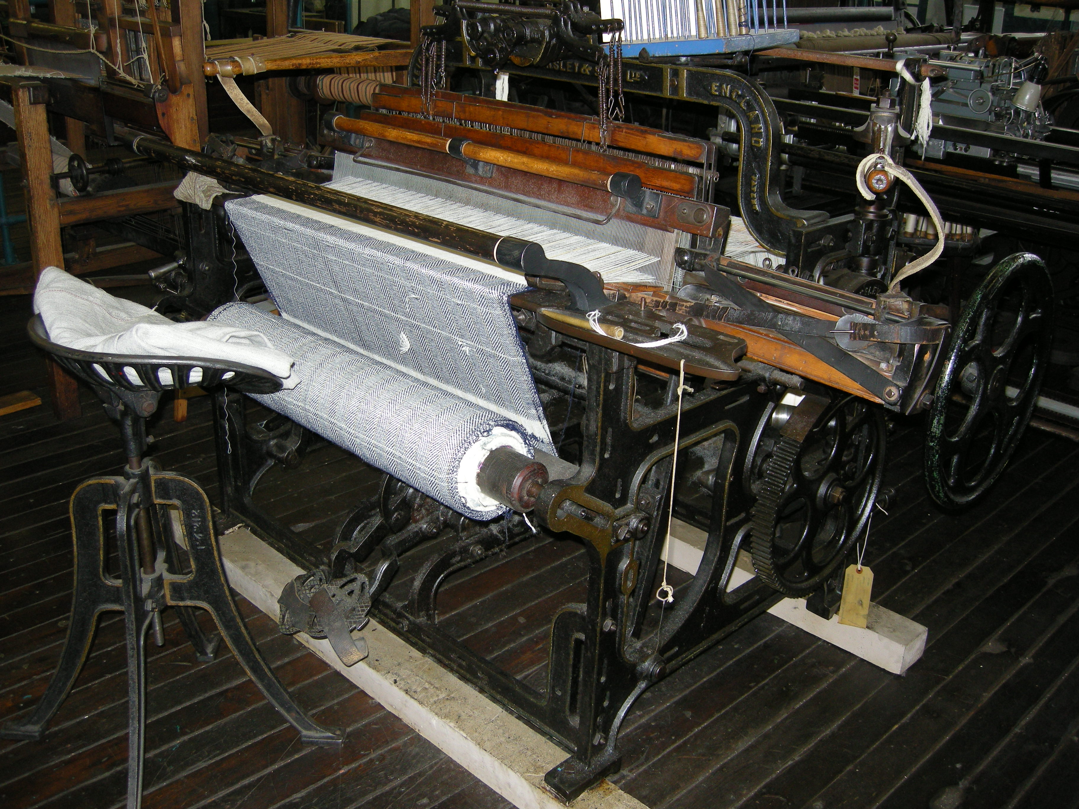 Loom at Bradford Industrial Museum, Bradford, West Yorkshire, England. 53.48'.40".N; 1.43'.16".W.